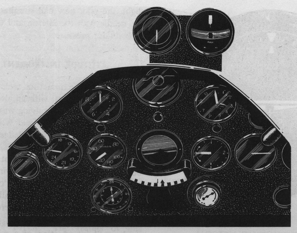 Photo of Jimmy Doolittle's instrument panel